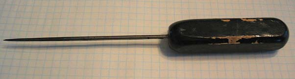 Ice pick (household implement) with black enameled wooden handle on a background of 0.25-inch square graph paper.